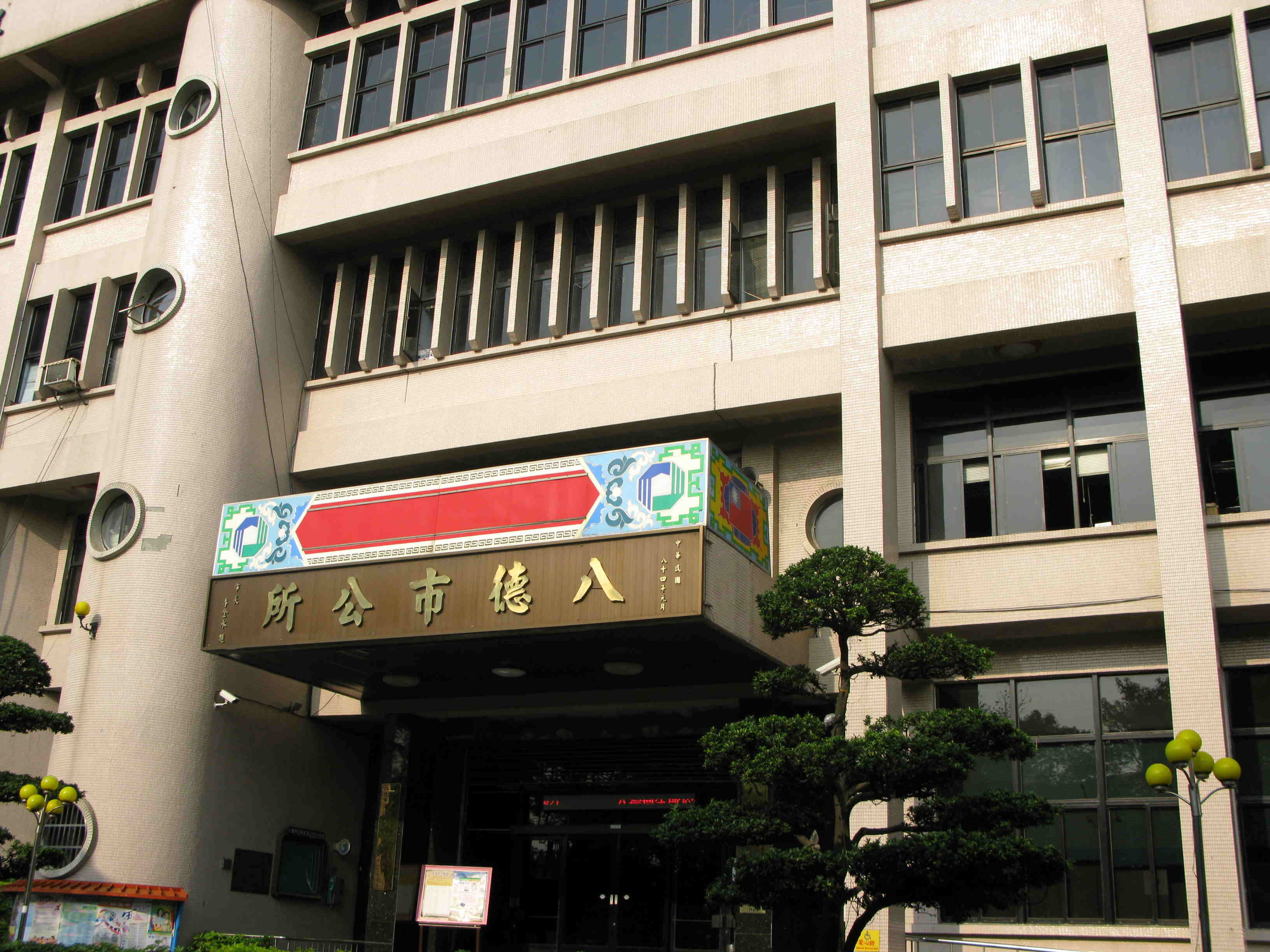 Bade City Office, Taoyuan County.中文（台灣）: 桃園縣八德市公所。Bân-lâm-gú: Thô-hn̂g-kuān Pat-tik-tshī Kong-sóo.